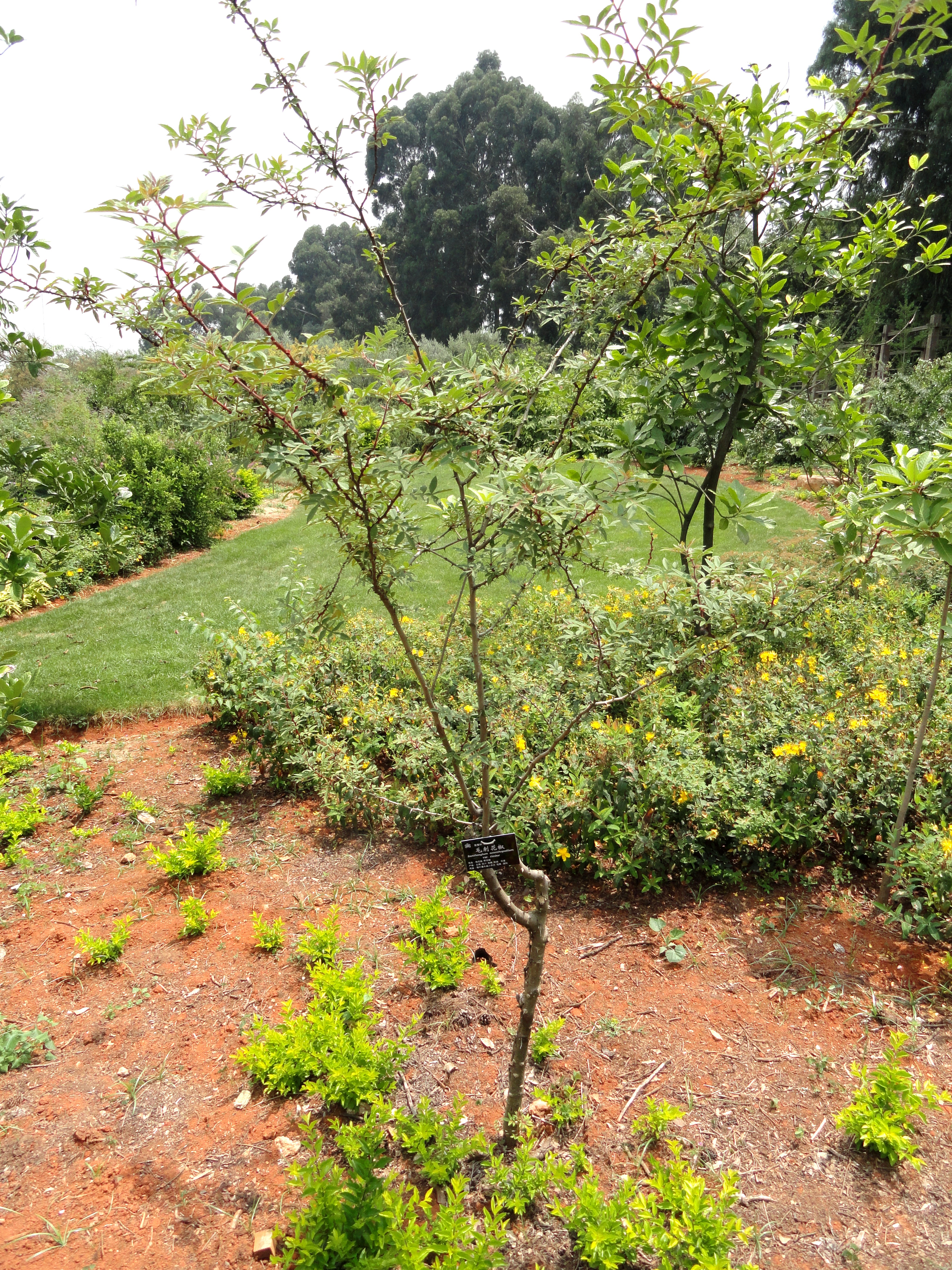 Plant specimen in the Kunming Botanical Garden, Kunming, Yunnan, China.